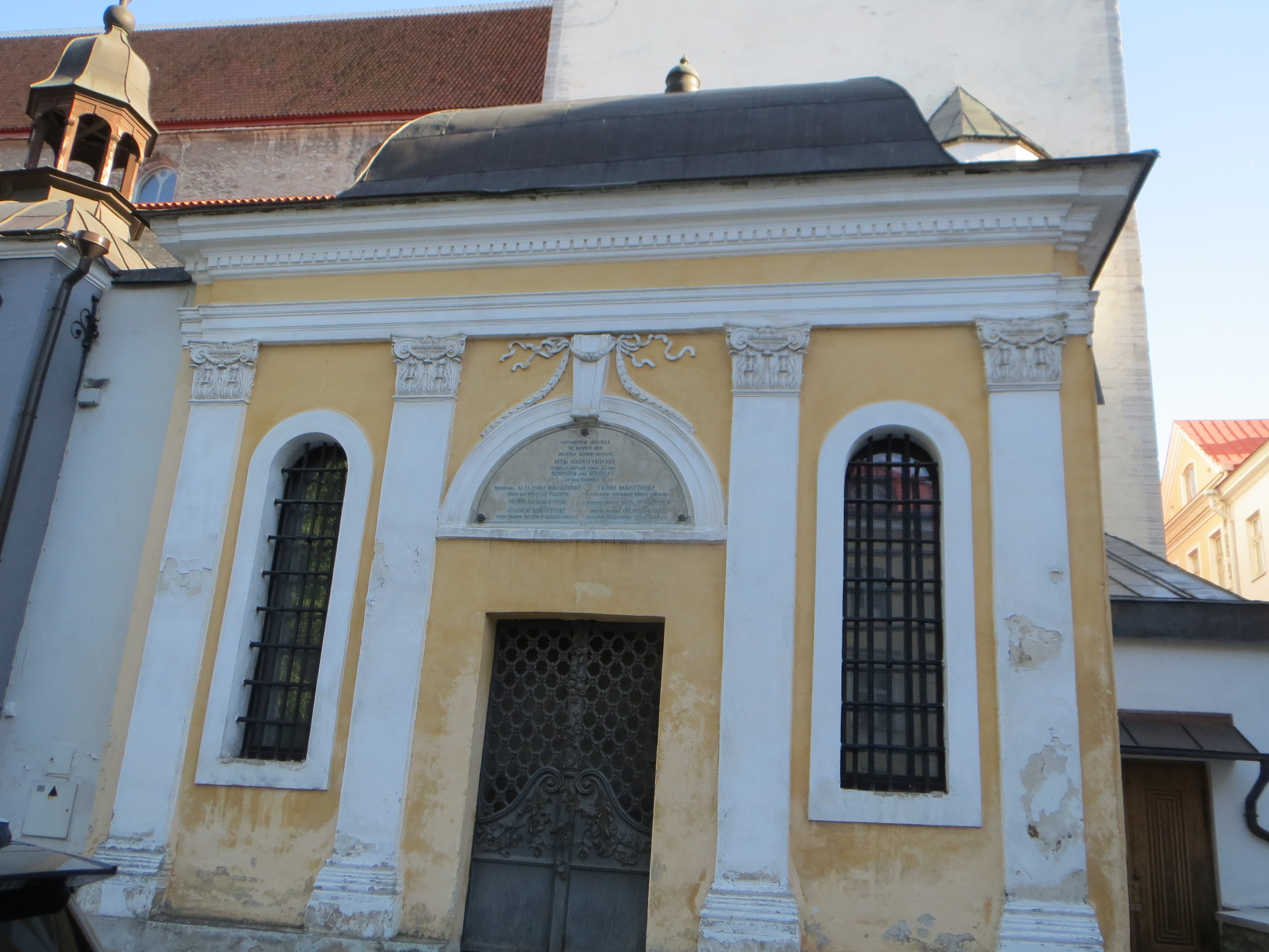 Mausoleum of Peter August, Duke of Schleswig-Holstein-Sonderburg-Beck at St. Nicolai Church in Tallinn